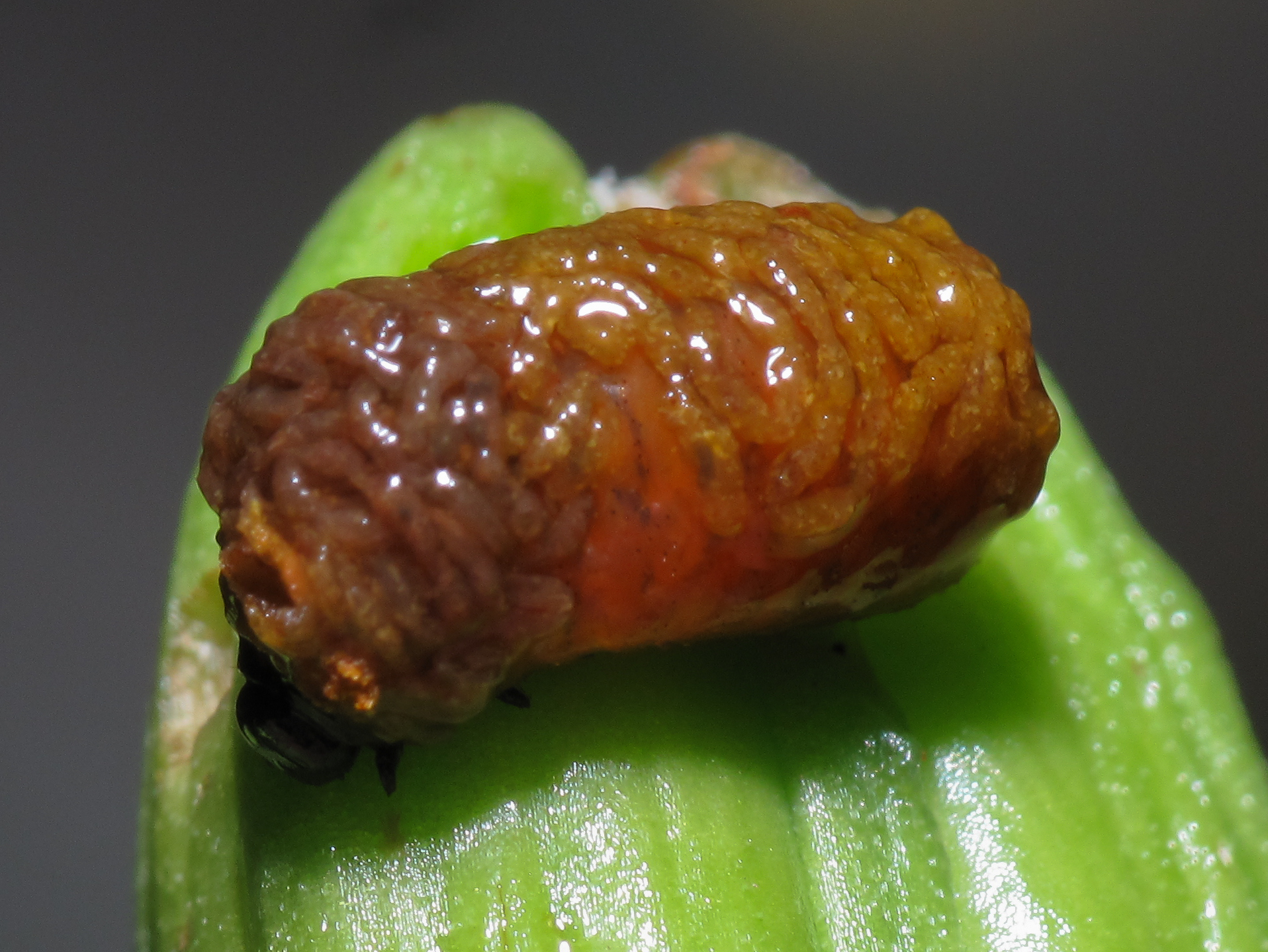 Larva of Lilioceris lilii, Brión